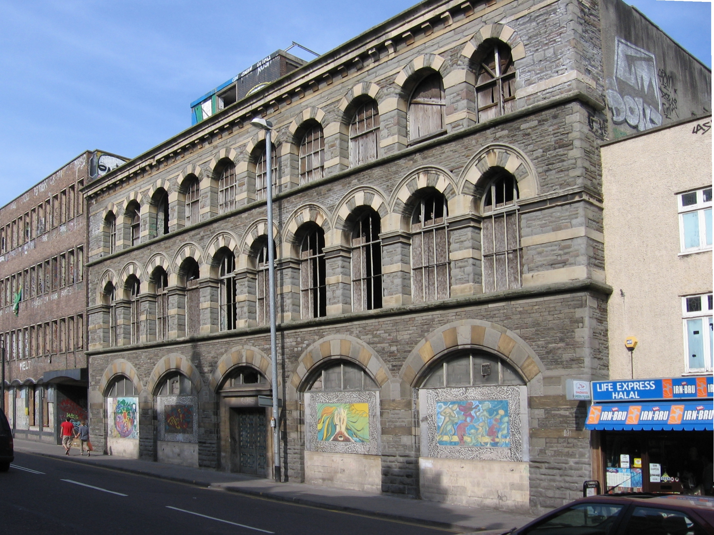 The Carriage Works, 104 Stokes Croft, Bristol, UK. Grade II* listed. [1]